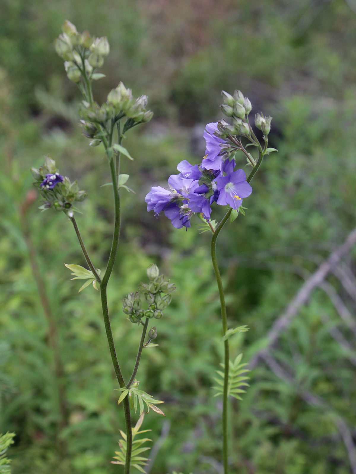 Polemoniaceae, Polemonium caeruleum